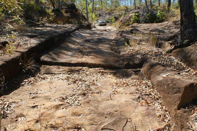 Laura to Maytown Road -1B 2846 1895 descent & cutting (2009)